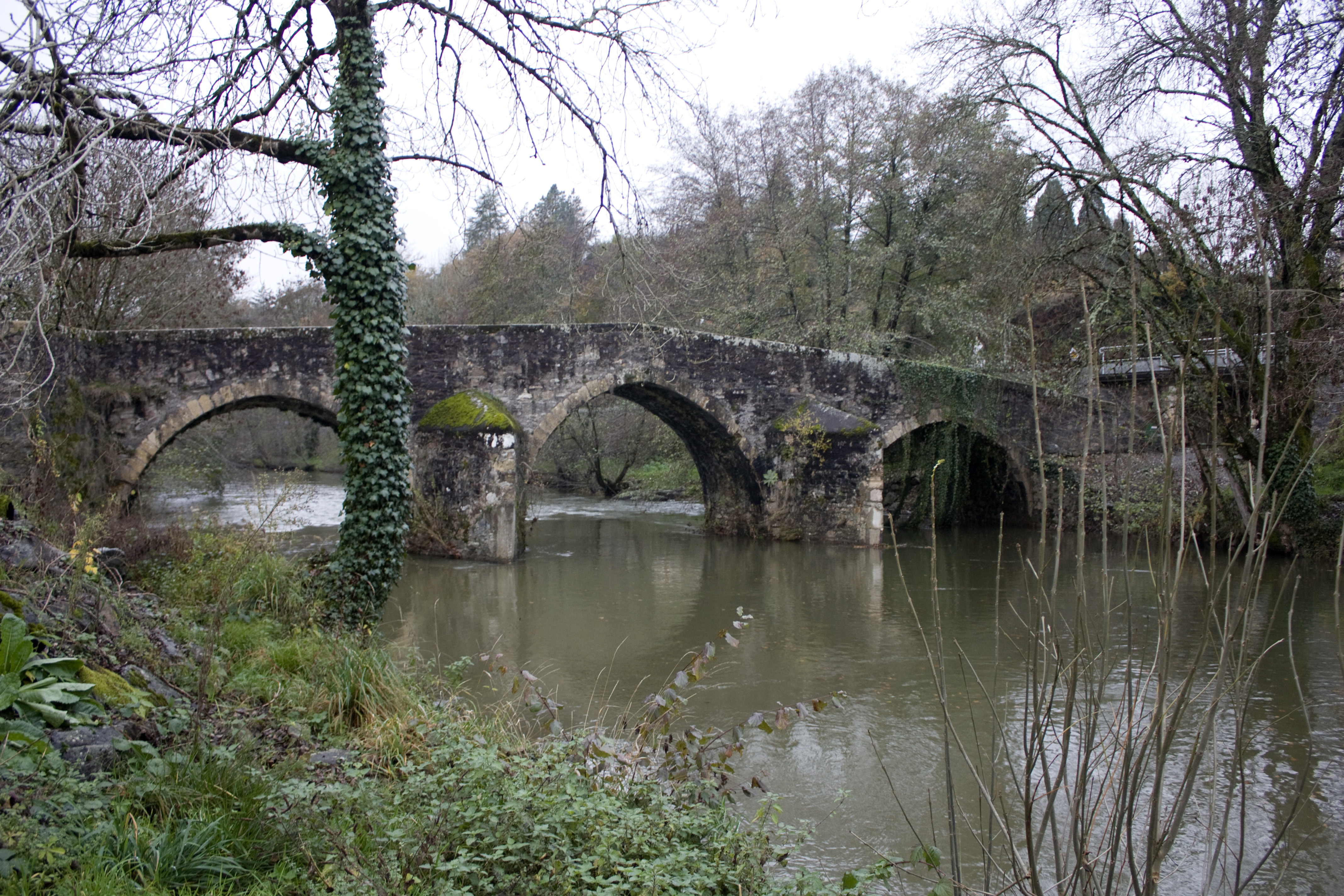 Roman bridge with three arches which pier are protected by three imposing spouts (13th century or early 14th century).